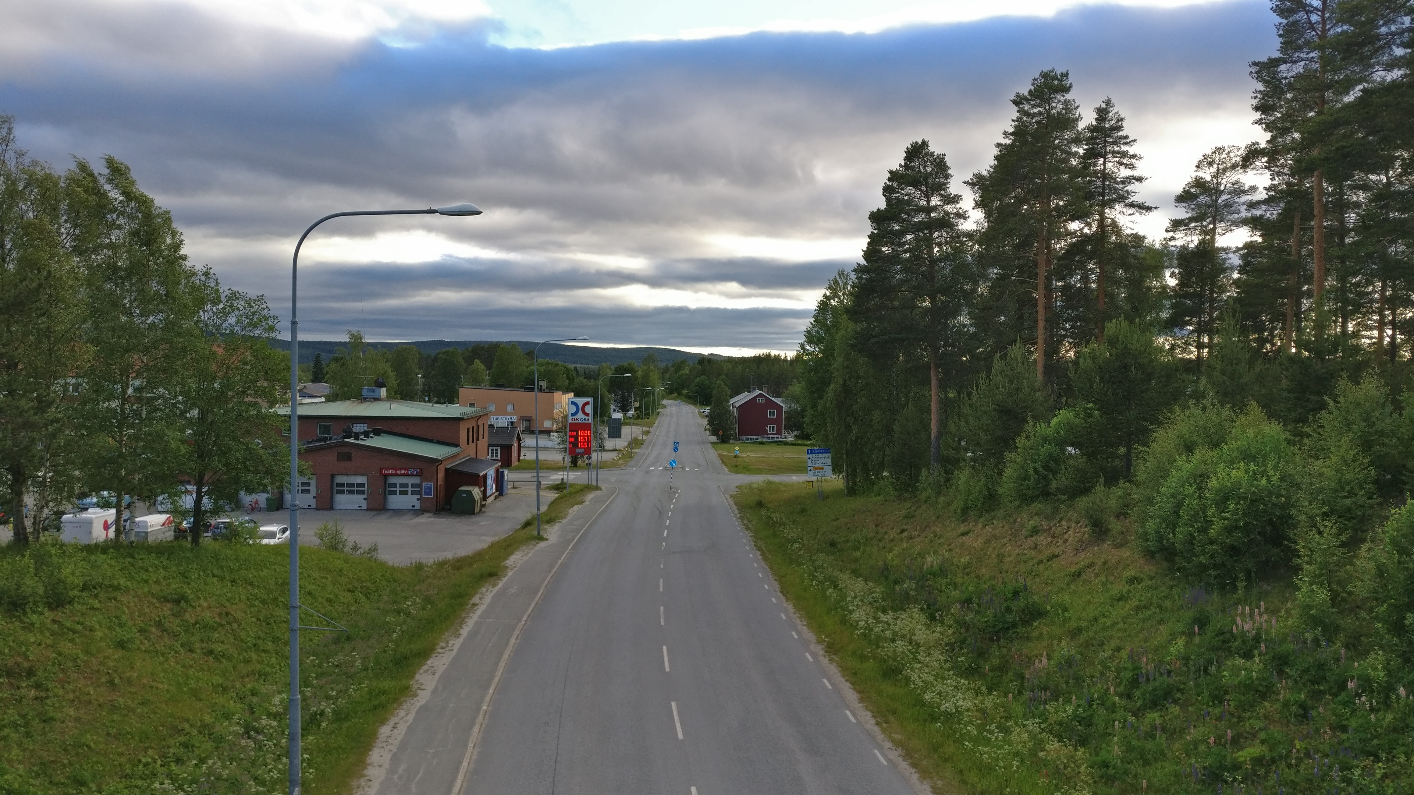 Road 92 through Åsele, june 2018